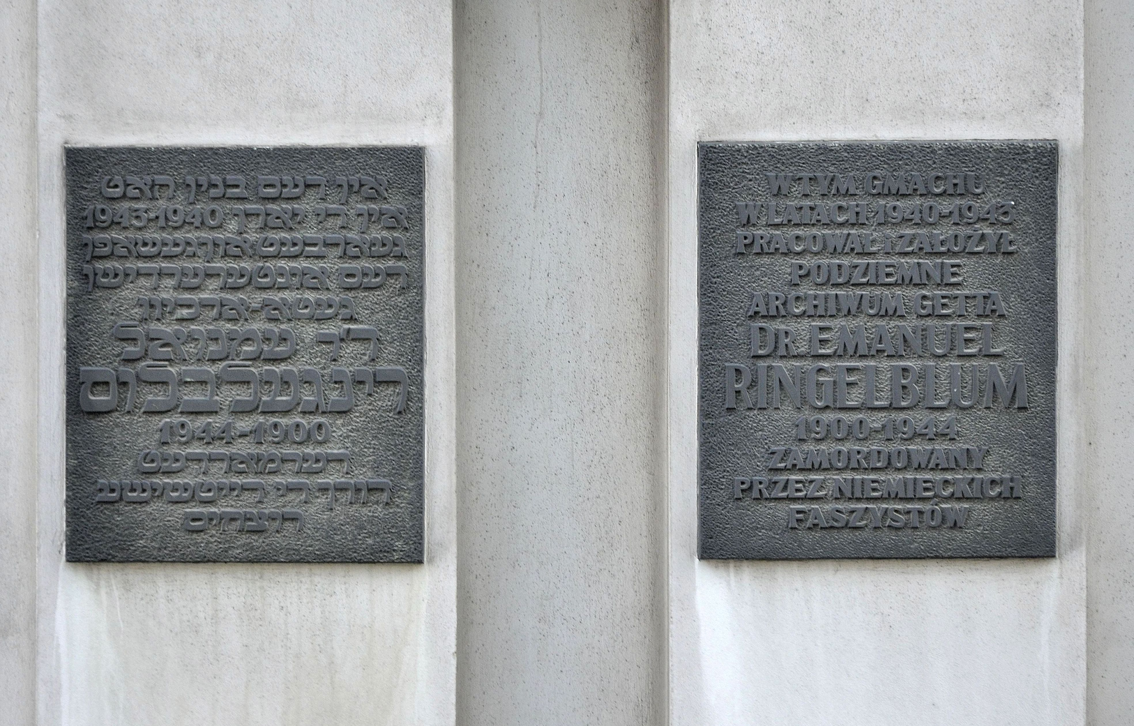 Plaques in memory of Emanuel Ringelblum at the entrance of Jewish Historical Institute in Warsaw